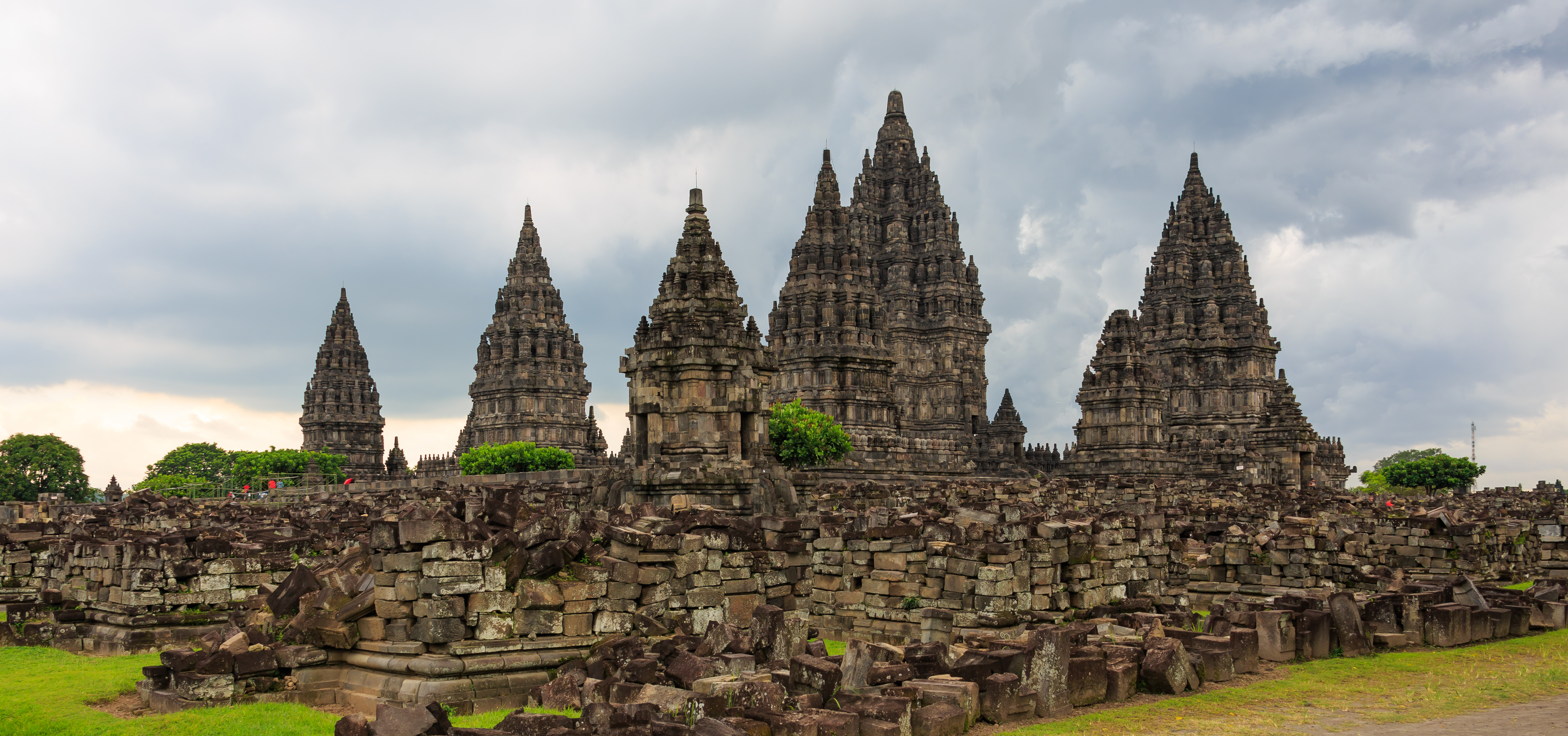 Yogyakarta, Indonesia: Prambanan temple complex.